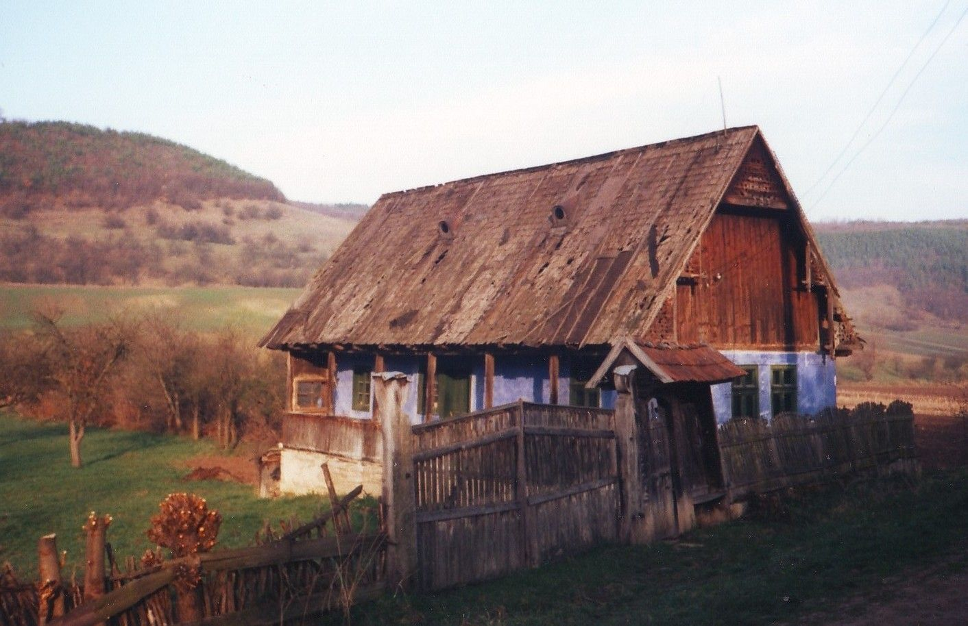 Petrinzel, Transylvania